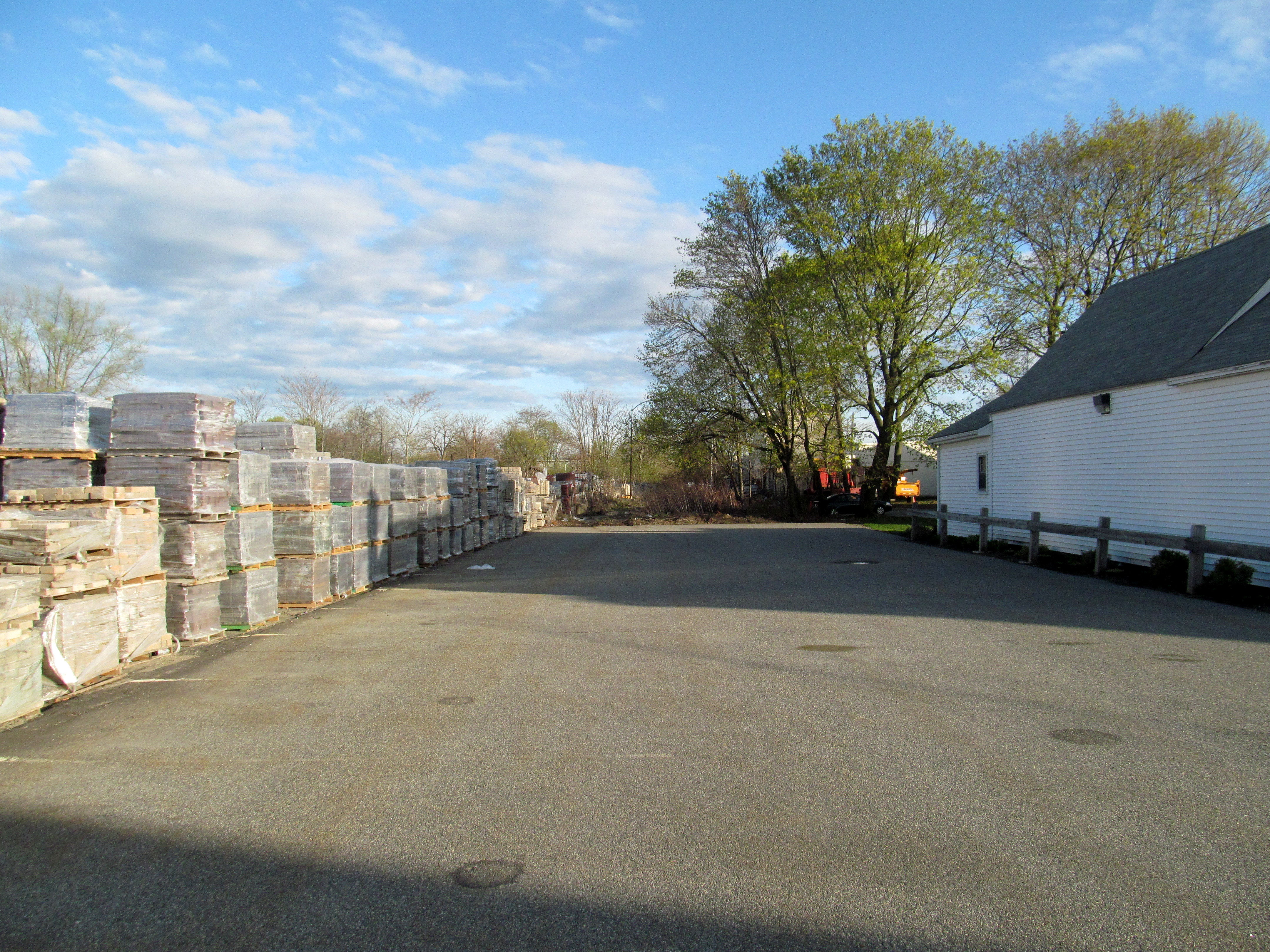 Site of the 1959-1981 Woburn station in April 2016. The station shelter was located about at the near stacks of lumber on the left.